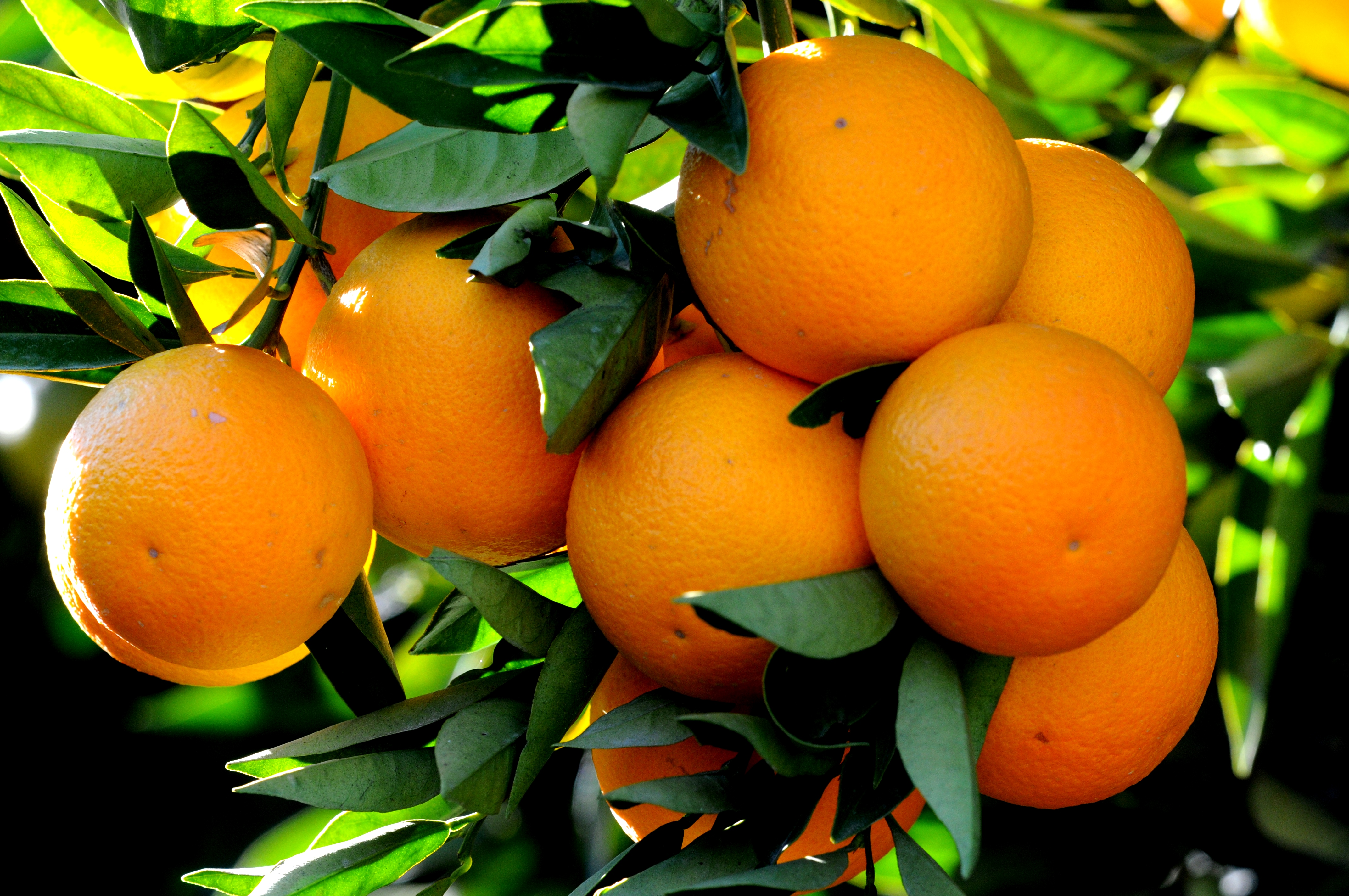 Local orange variety of Kozan (Citrus sinensis var. kozan). Bucak, Kozan - Adana, Turkey.